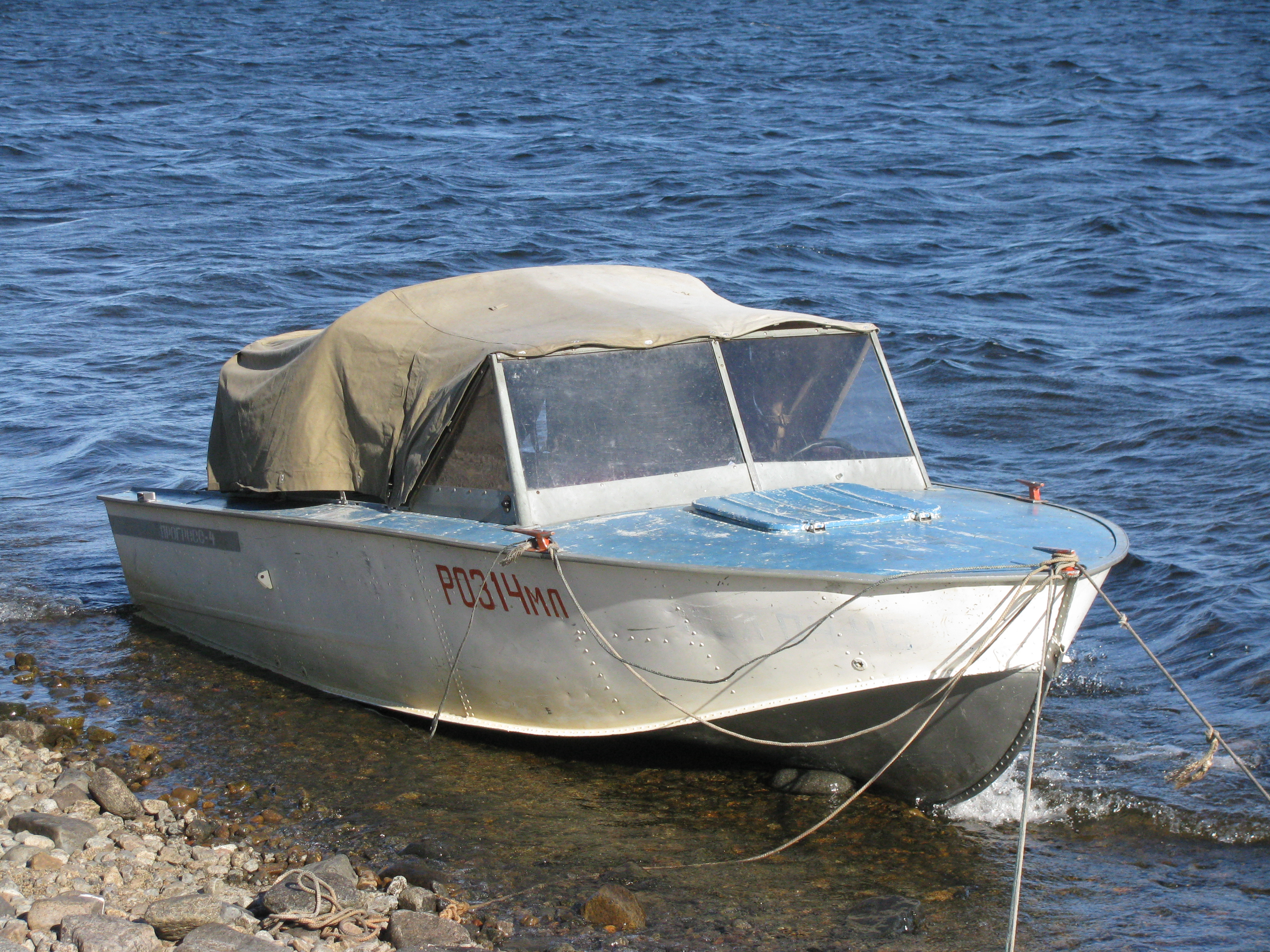 Motorboat Progress-4 on the shore of the Ubeyolenya island on Lovozero Lake